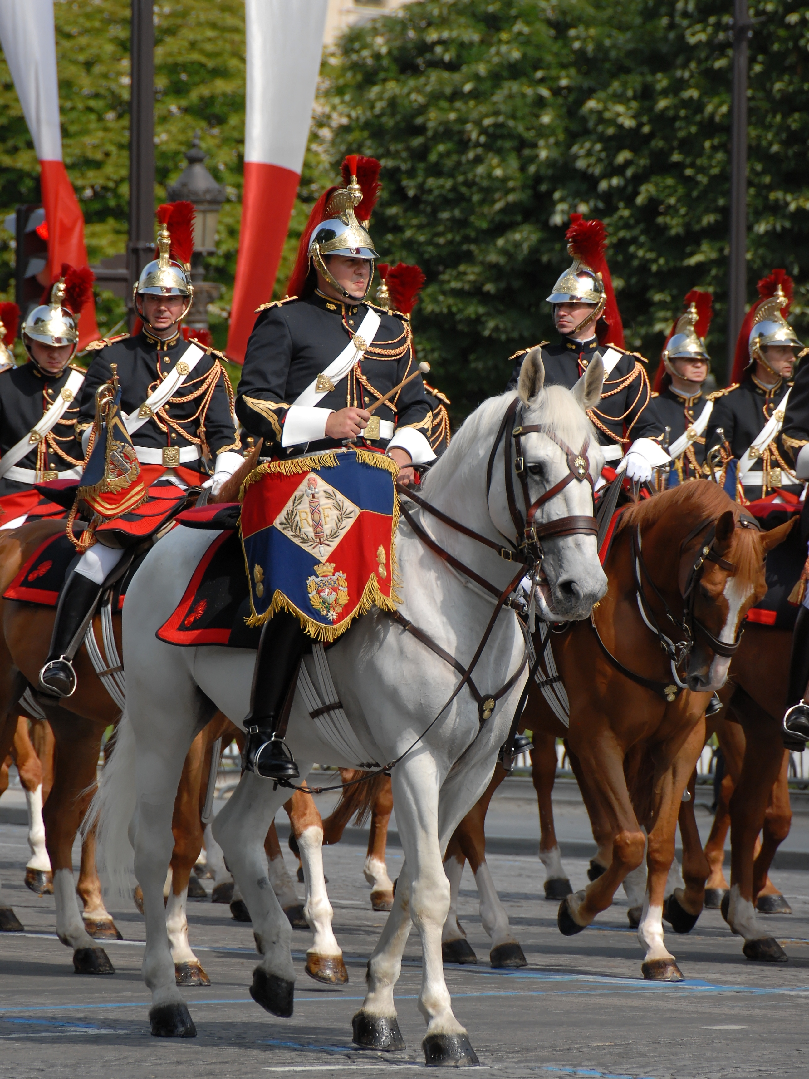 The fanfare of the Cavalry Regiment of the French Republican Guard during the 2007 military parade on the Champs-Élysées.